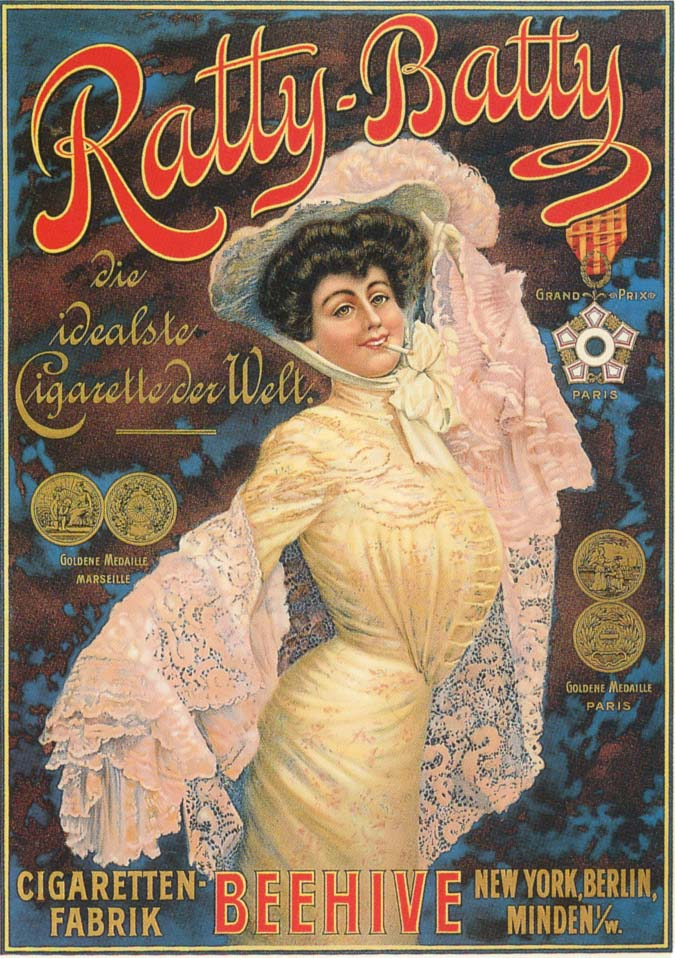 Promotional art for cigarettes, chromelithography.